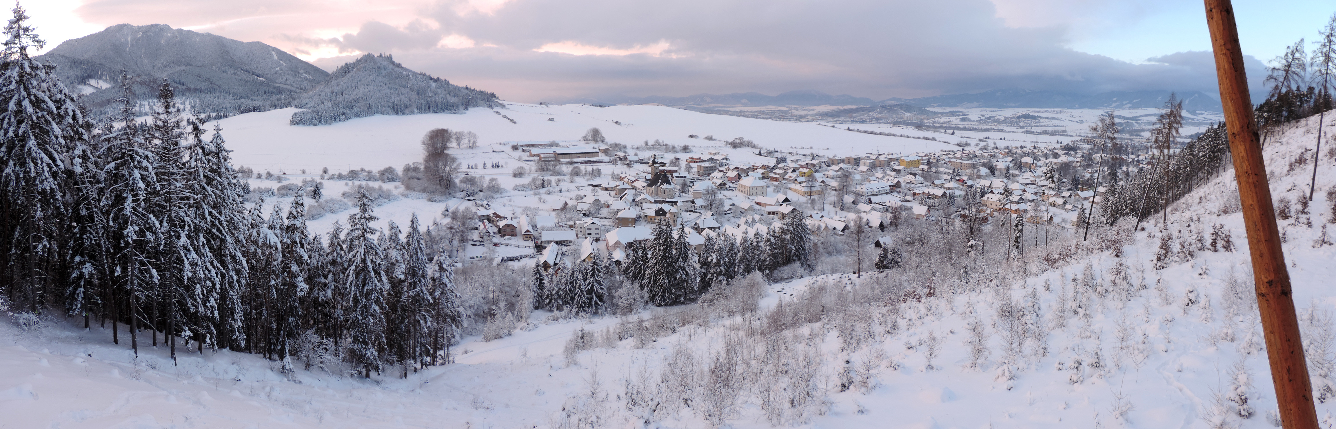 Panoramic view of Liptovský Ján, Slovakia, in the winter.